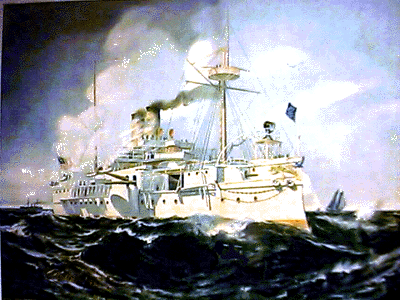 Lithograph printed in 1898, based on "Battleship Maine" (1895) by Frederick Nelson Atwood (born 1844, died before 1900).